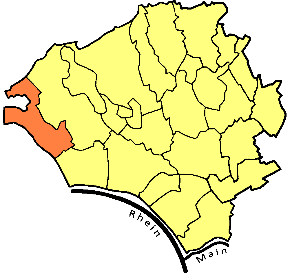 Map of Wiesbaden showing the location of Frauenstein